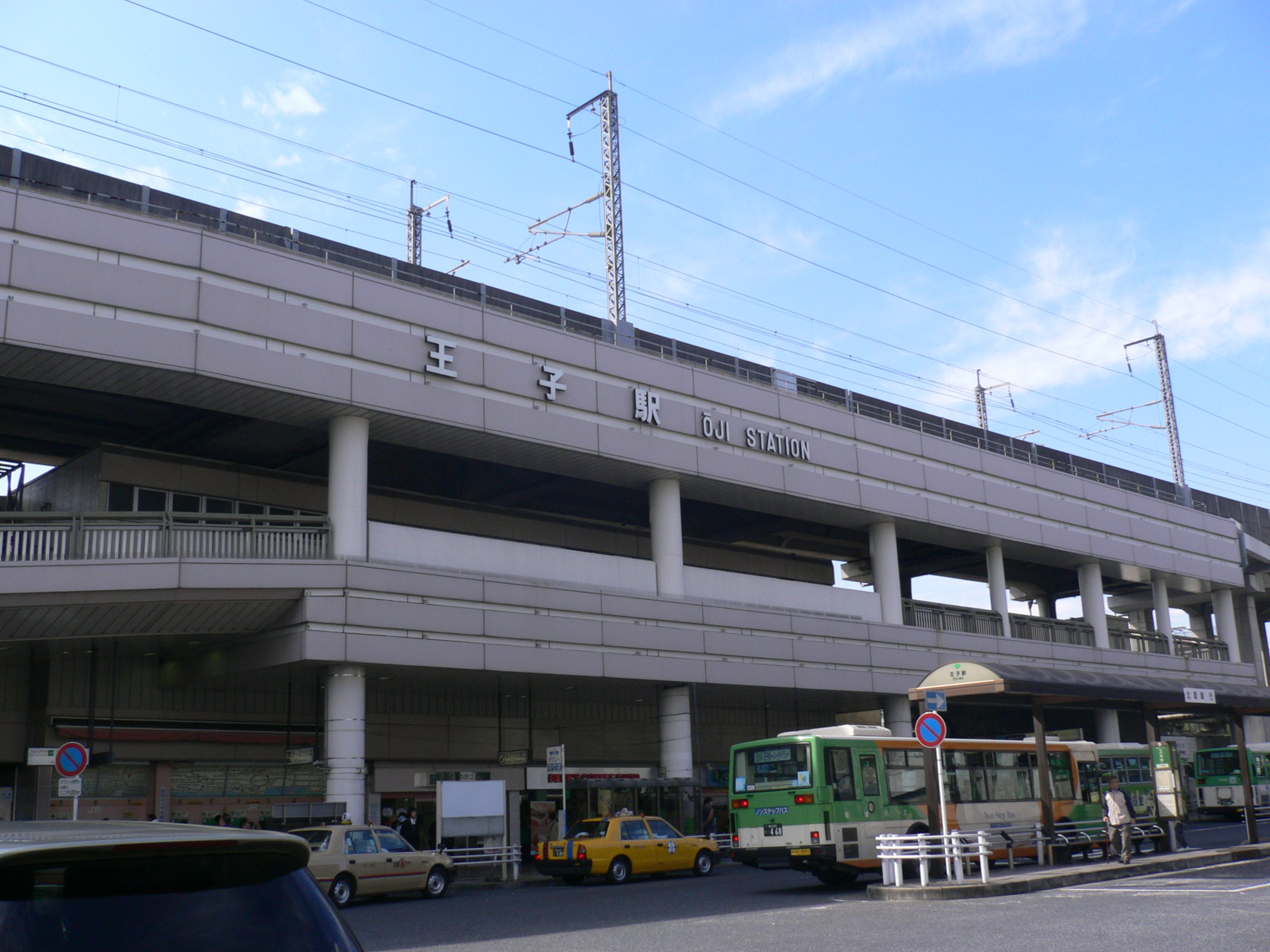 Oji Staion (王子駅), Kita W, Tokyo M.